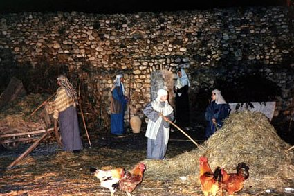 L'Era. Imatge del pessebre vivent a la muralla de Bàscara